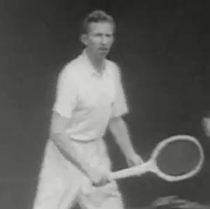 Don Budge, American tennis player, Wimbledon singles Tennis champion 1937 and 1938